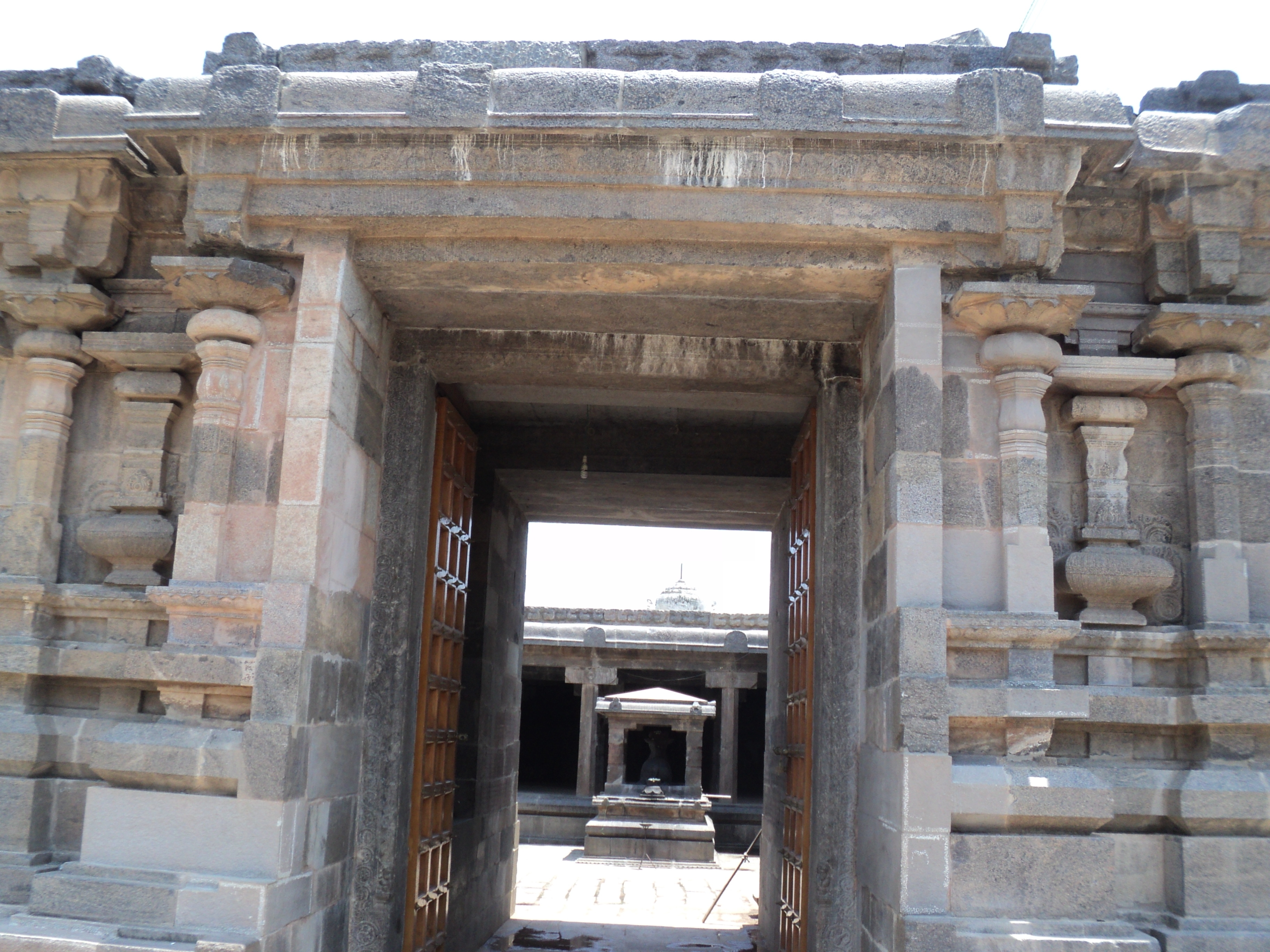 Fort Entrance